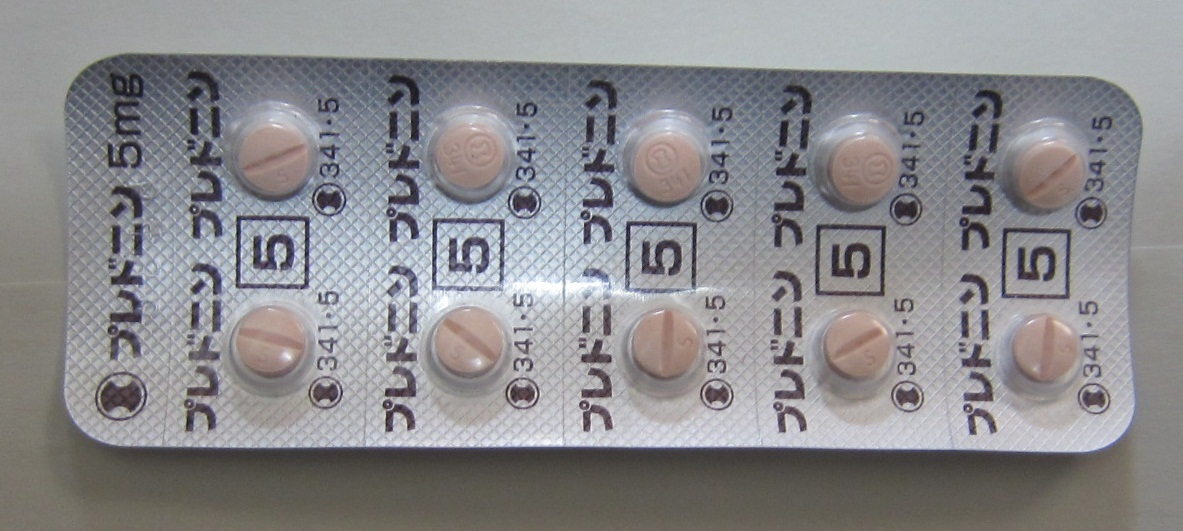 Predonine 5mg (Packing for Japan)